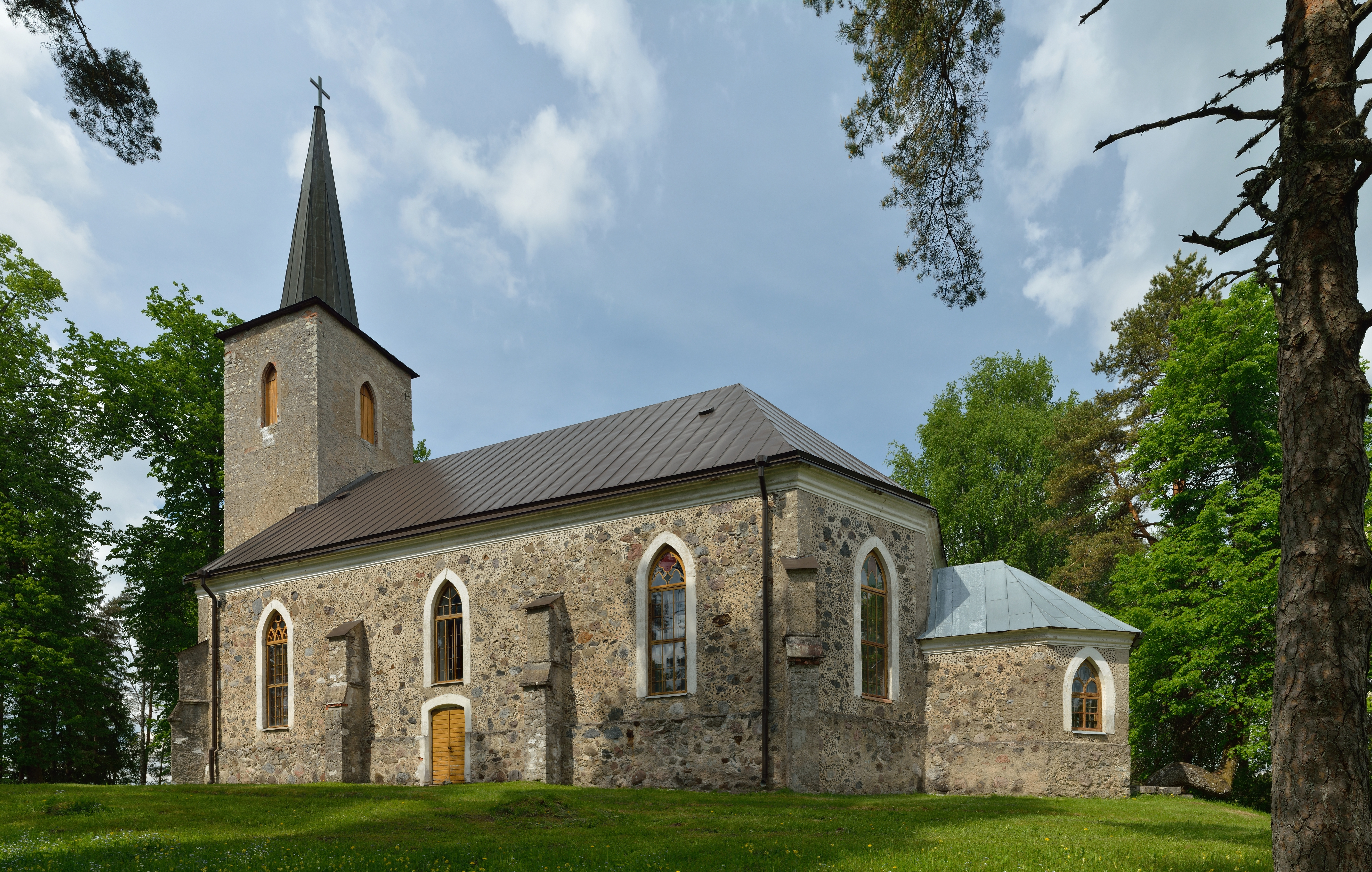 Vahastu church, built in 1881-1883